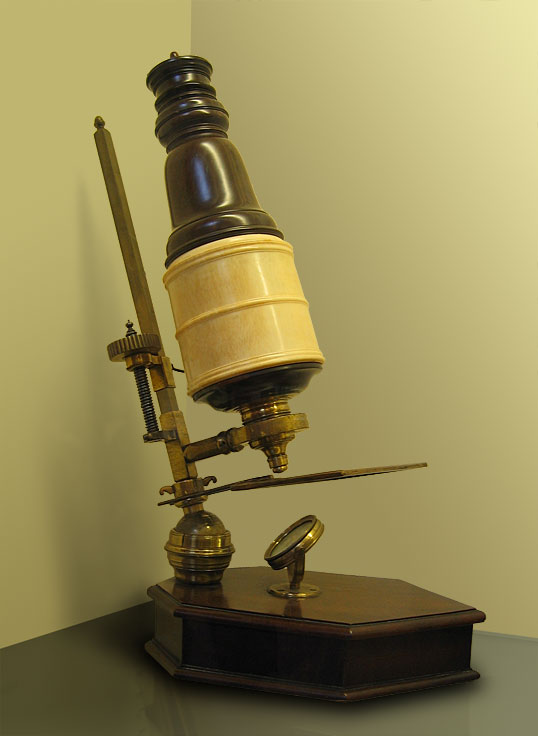 A 17th century compound microscope similar to the one Robert Hooke would have used to compile his Micrographia. From the Whipple Museum of the History of Science in Cambridge. Photograph © Andrew Dunn, 5 November 2004.